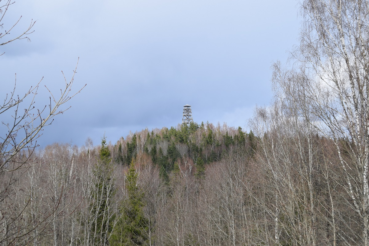 Lielais Liepukalns